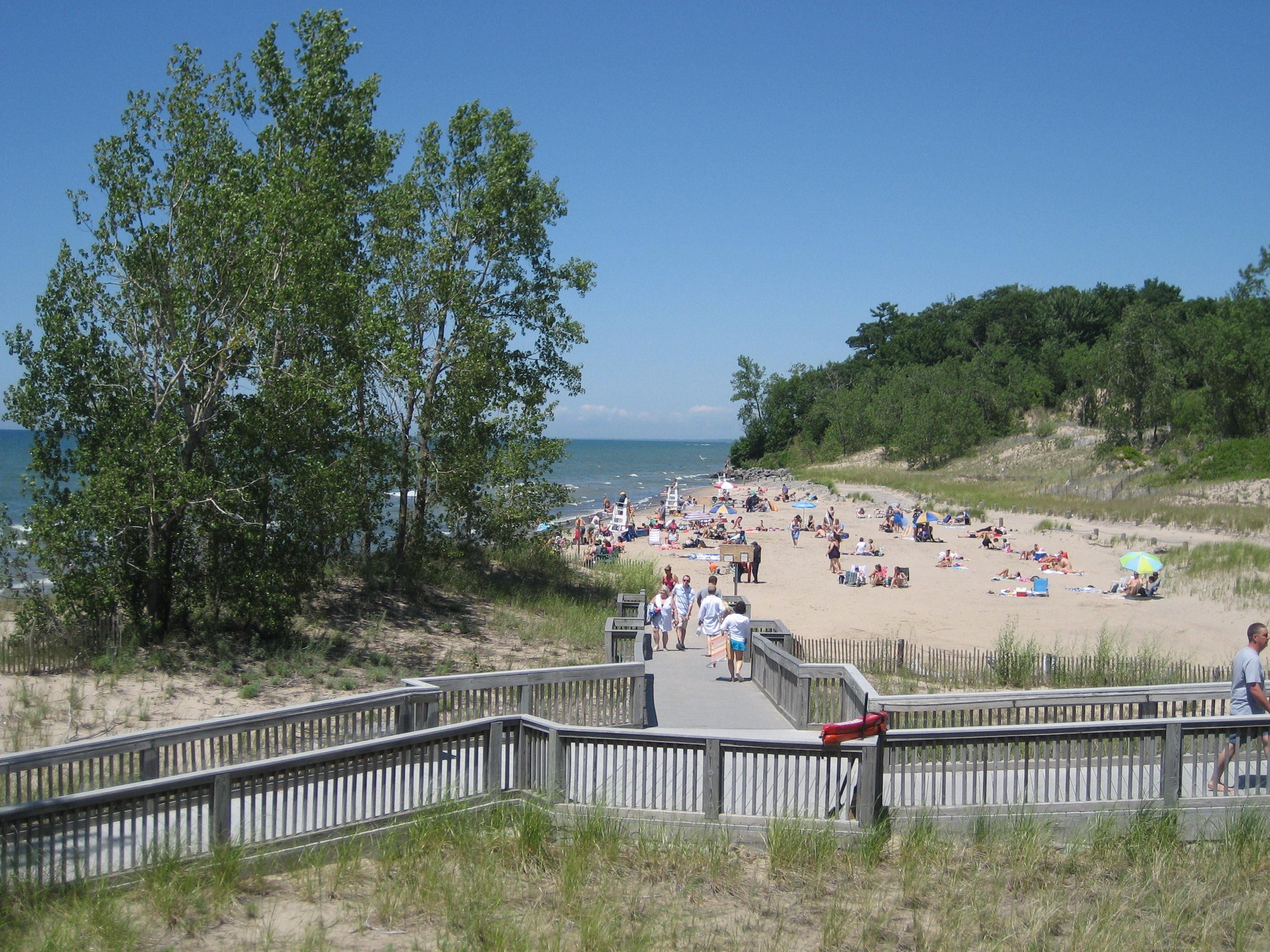 Photograph of Sandy Island Beach State Park, New York in July. Lake Ontario is in the distance. American beachgrass is growing in the foreground; the trees to the left are Eastern cottonwoods, which are the main dune-forming tree in this region.